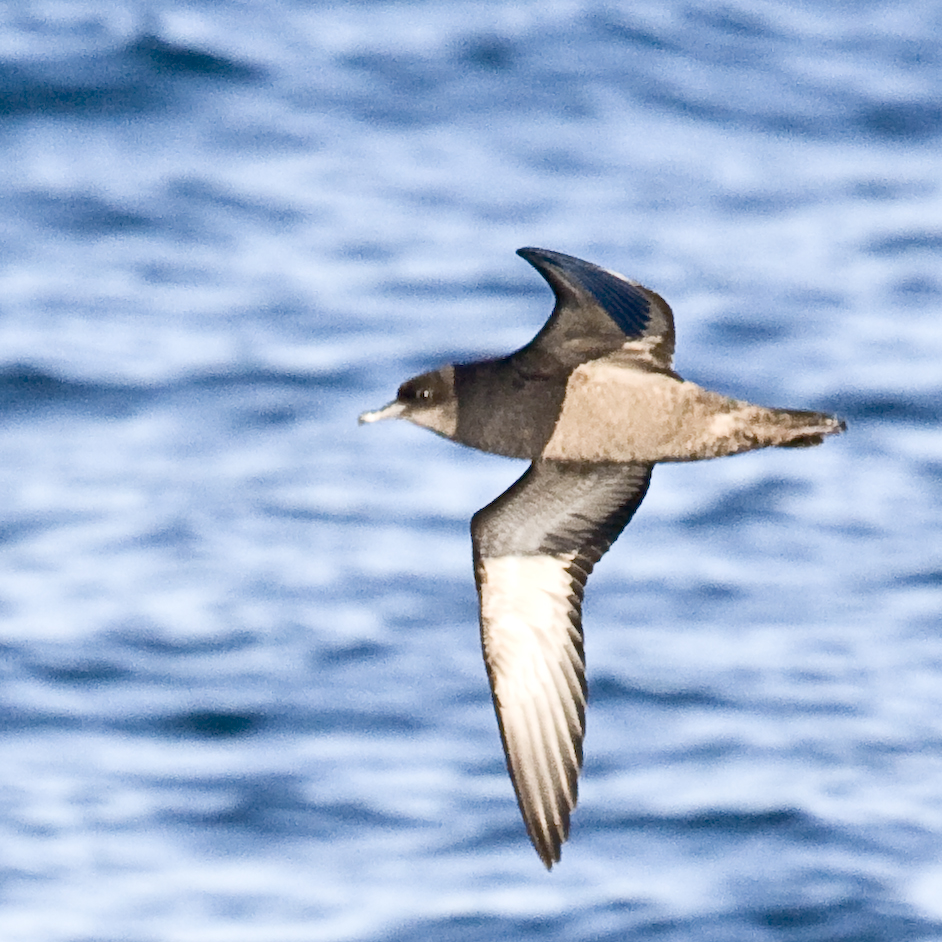 Short-tailed Shearwater (Puffinus tenuirostris) - bird -Pelagic Boat Trip - Leaders: Brian Sullivan, Brad Schram, Tom Edell - Sat. 19 Jan 2008 out of Avila, Port San Luis, CA - 2008 Morro Bay Winter Bird Festival - event publicity photo for use by the bird festival committee for future publicity, etc. is the official site; Publicity photos to be freely shared are to be posted to the Flickr Group at - photo by Michael "Mike" L. Baird Canon 5D handheld. Bird expert and author Brad Schram, trip leader, says "Actually Mike, I believe this bird is a Short-tailed Shearwater. First, the small bill and steeply angled forehead; second, the pale throat contrasting with the body color; third, the feet seem to extend beyond the tail just fine for either probably; the lack of molt--all the Sooties we saw were molting (this latter is only indicative, not diagnostic). Now--if the wing lining brightness is accurate, your bird is indeed a Sooty--but I think it's a product of Photoshop contrast enhancement. My Short-tail photos have an identical underwing pattern with this bird--just soft gray instead of this bright." Thanks Brad!